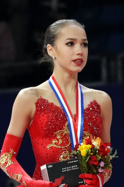 Alina Zagitova at the Cup of China 2017 - Awarding ceremony